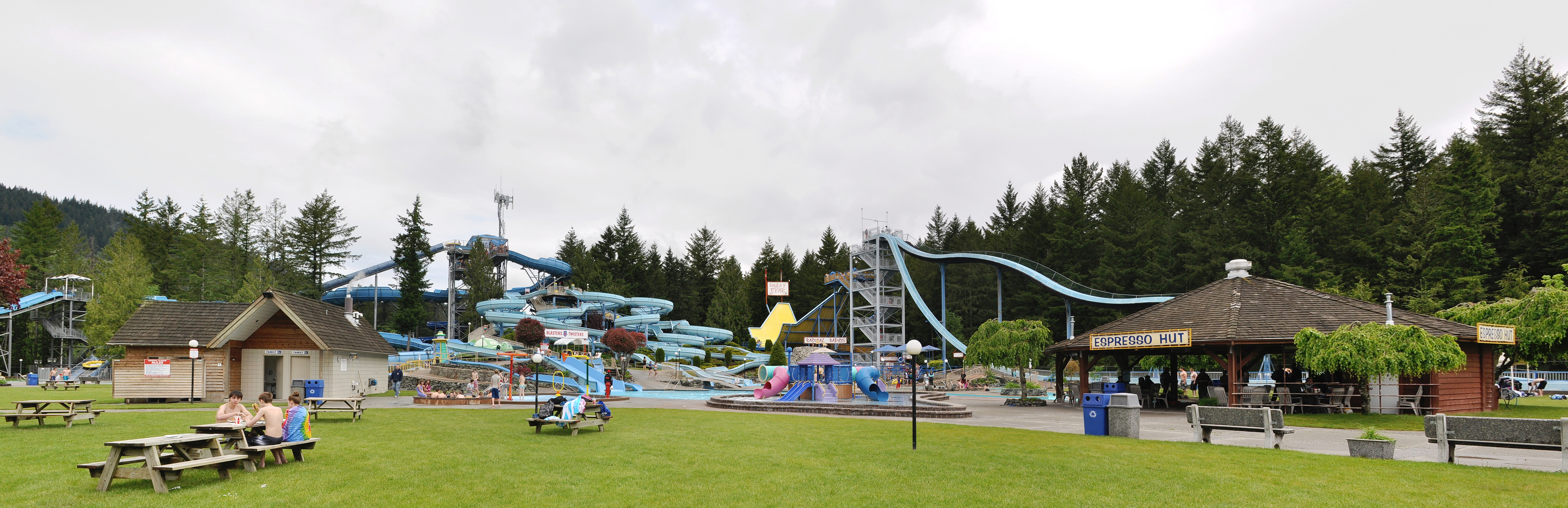 Panorama of the Cultus Lake Waterpark, BC, Canada.